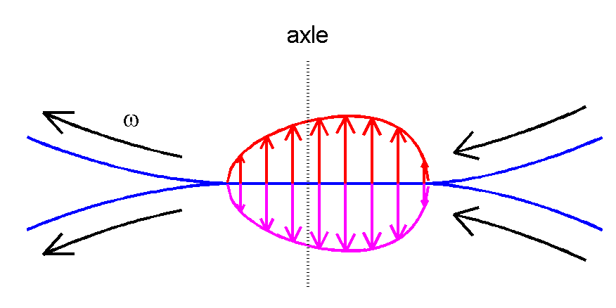 This graph shows the a-symmetric pressure distribution acting between two steadily rolling viscoelastic cylinders. The pressures and also the contact area are shifted to the right (inlet) compared to the symmetrical distribution for elastic contact. This is because viscoelastic material does not respond instantaneously. At the inlet additional pressure is needed to avoid interpenetration of the two surfaces. At the outlet it takes a while for the material to relax back to its original form such that less pressure is needed there.